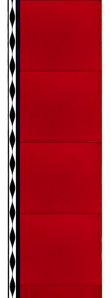 A scan of several frames from Schwechater by Peter Kubelka